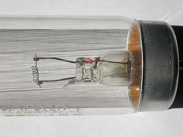 Electrode of 20W fluorescent tube lamp, visible through the glass of a UV-antibacterial lamp without the coating of fluorescent material.